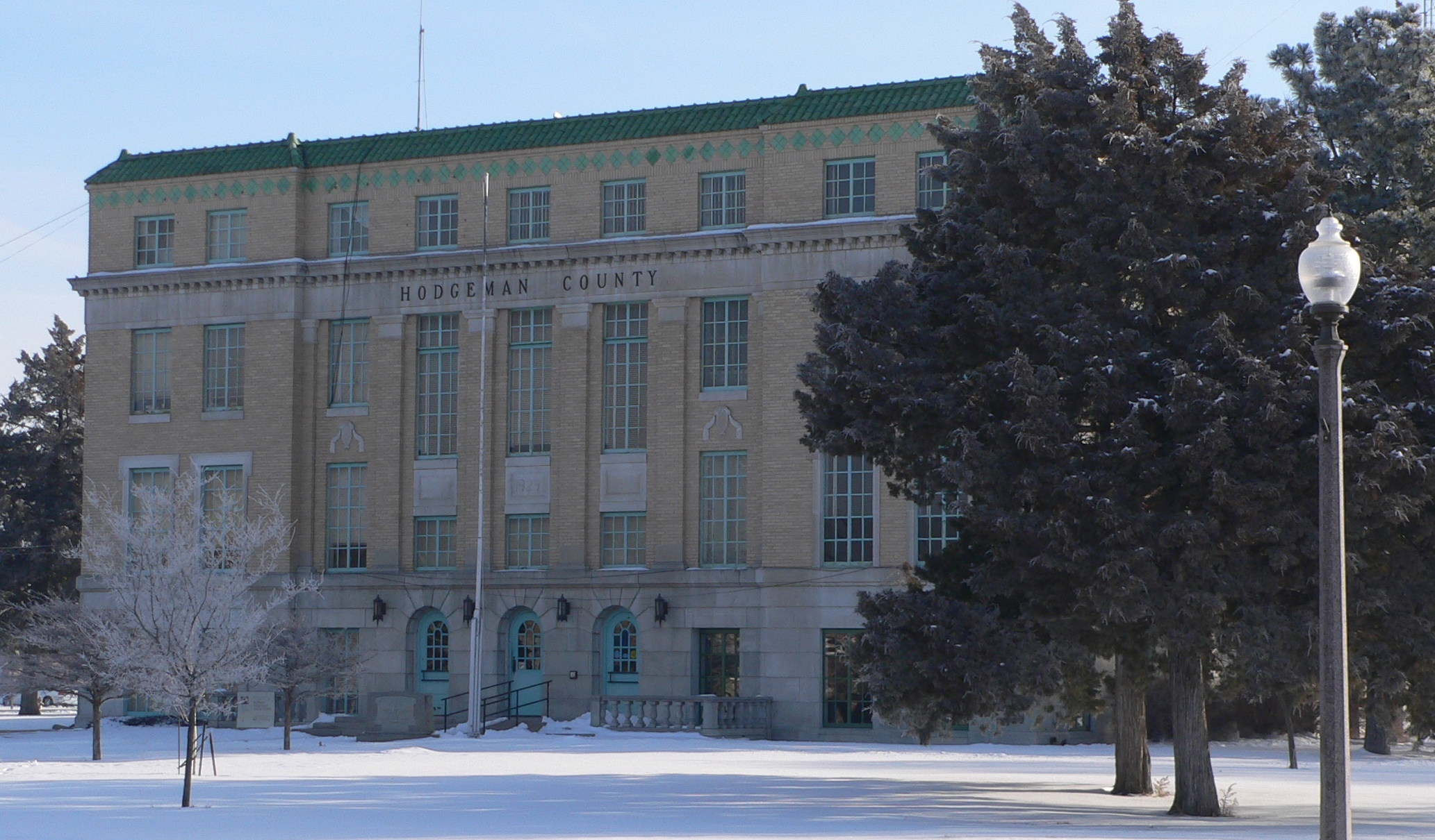 Hodgeman County Courthouse in Jetmore, Kansas; seen from the southwest. The building was designed in Renaissance style by architects Routledge & Hertz, and built in 1929. It is listed in the National Register of Historic Places.